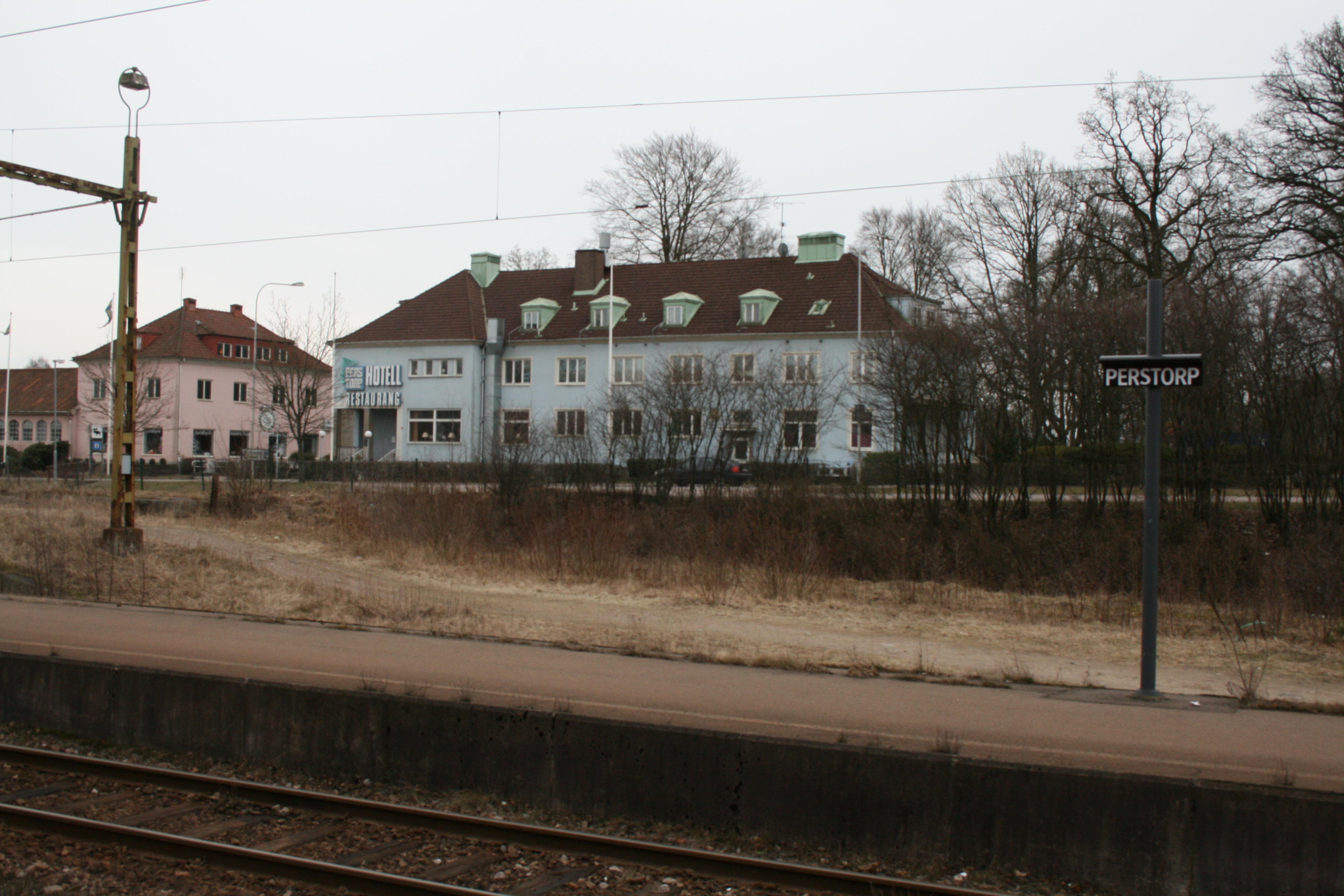 Perstorp, view from the station towards the hotel, "Perstorps Brukshotell"